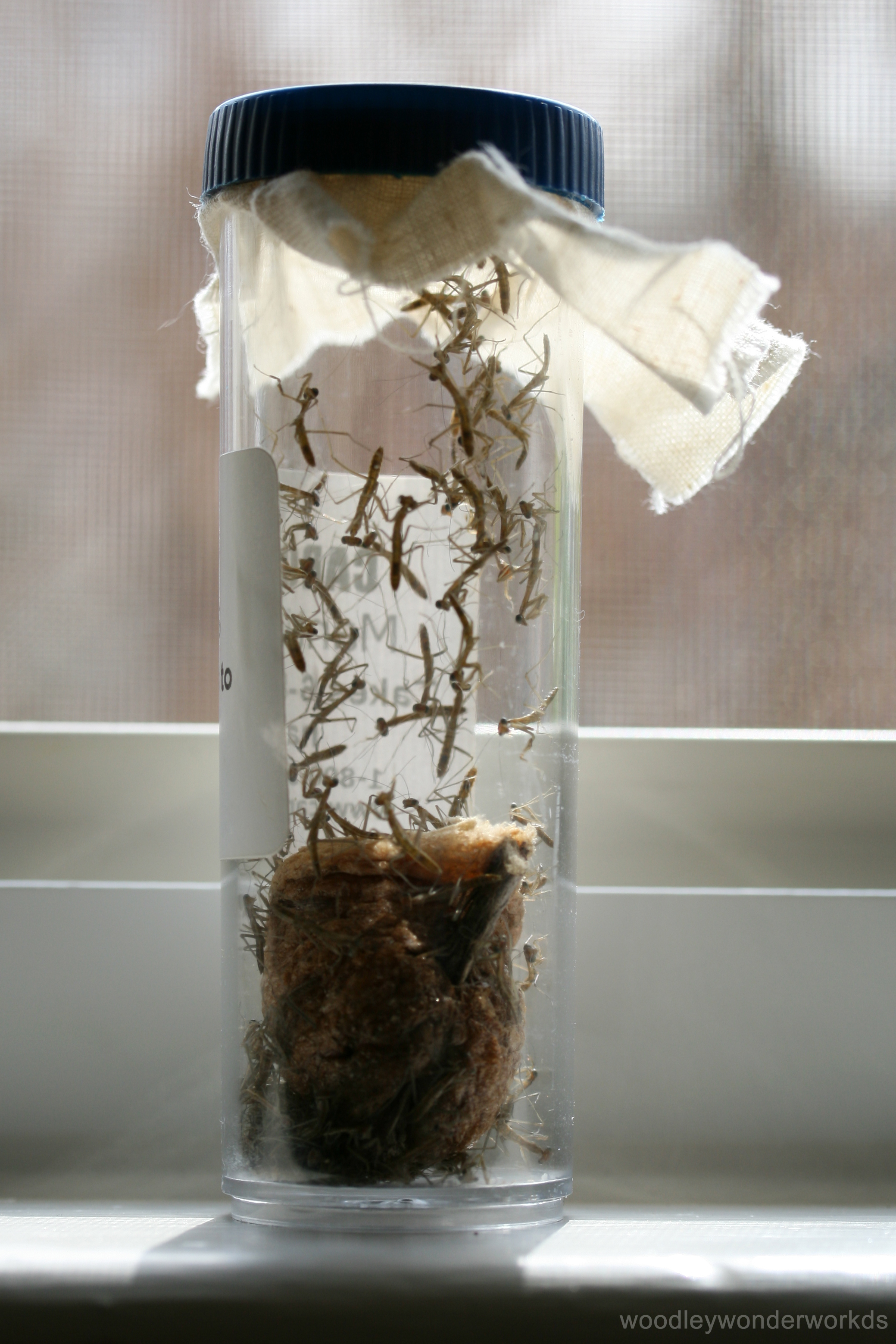 Our mantises have hatched! Here they are on their birthday. We received the kit as a kit from Nana and Papa and sent away for the egg case around Christmas. The egg case and starter fruit flies arrived at the end of January. We didn't quite get around to setting up their new homes but kept an eye on the egg case almost every day. Just when we were beginning to wonder if they had been frozen to death in transport, we found a surprising number suddenly released. Wonder how it is they all come out the same day? The little mantises were significantly larger than I imagined. Hard to believe they all fit in that egg case.